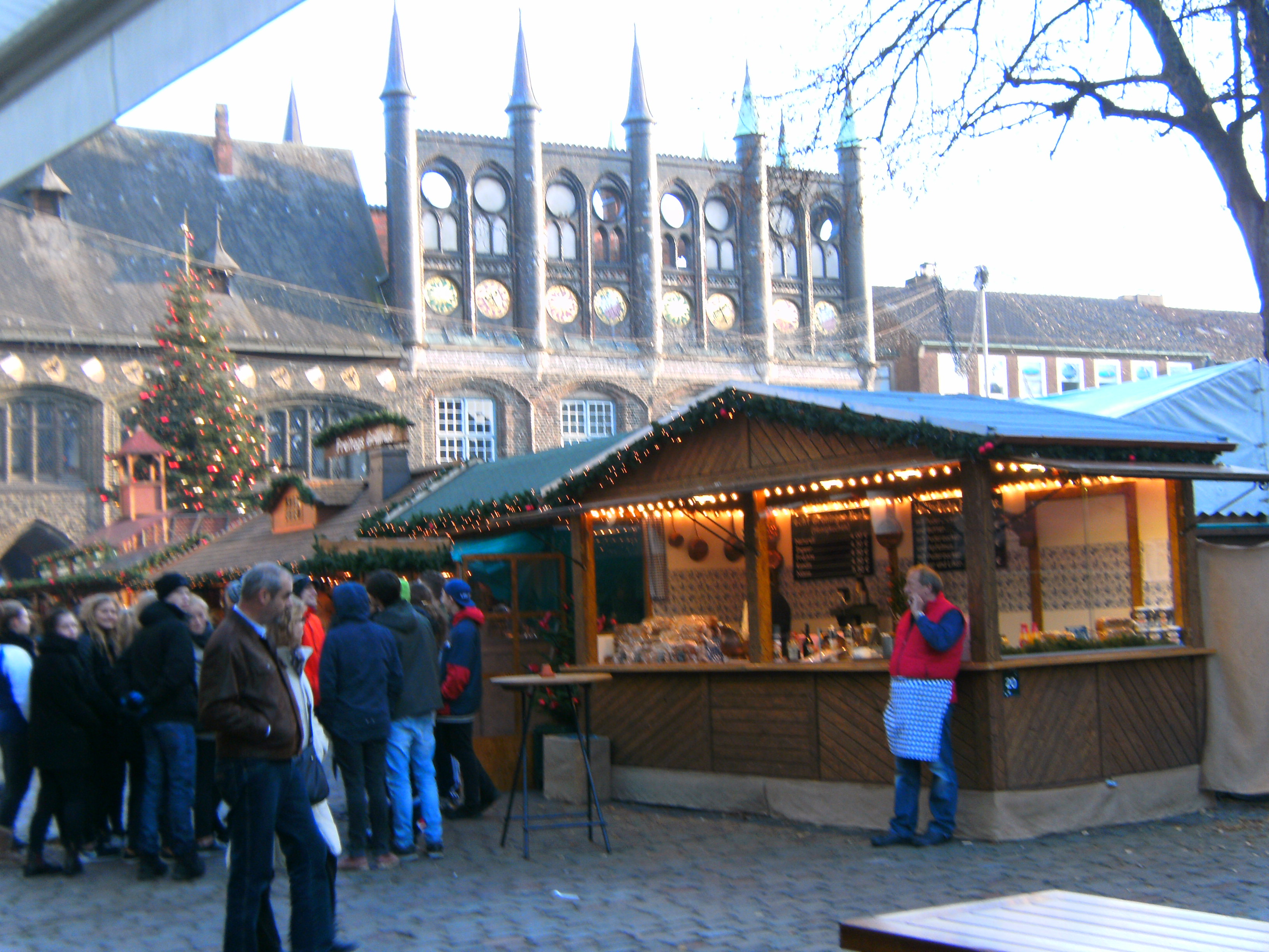 Christmas fair (Weihnachtsmarkt) on the market (auf dem Markt) in Lübeck, Germany.